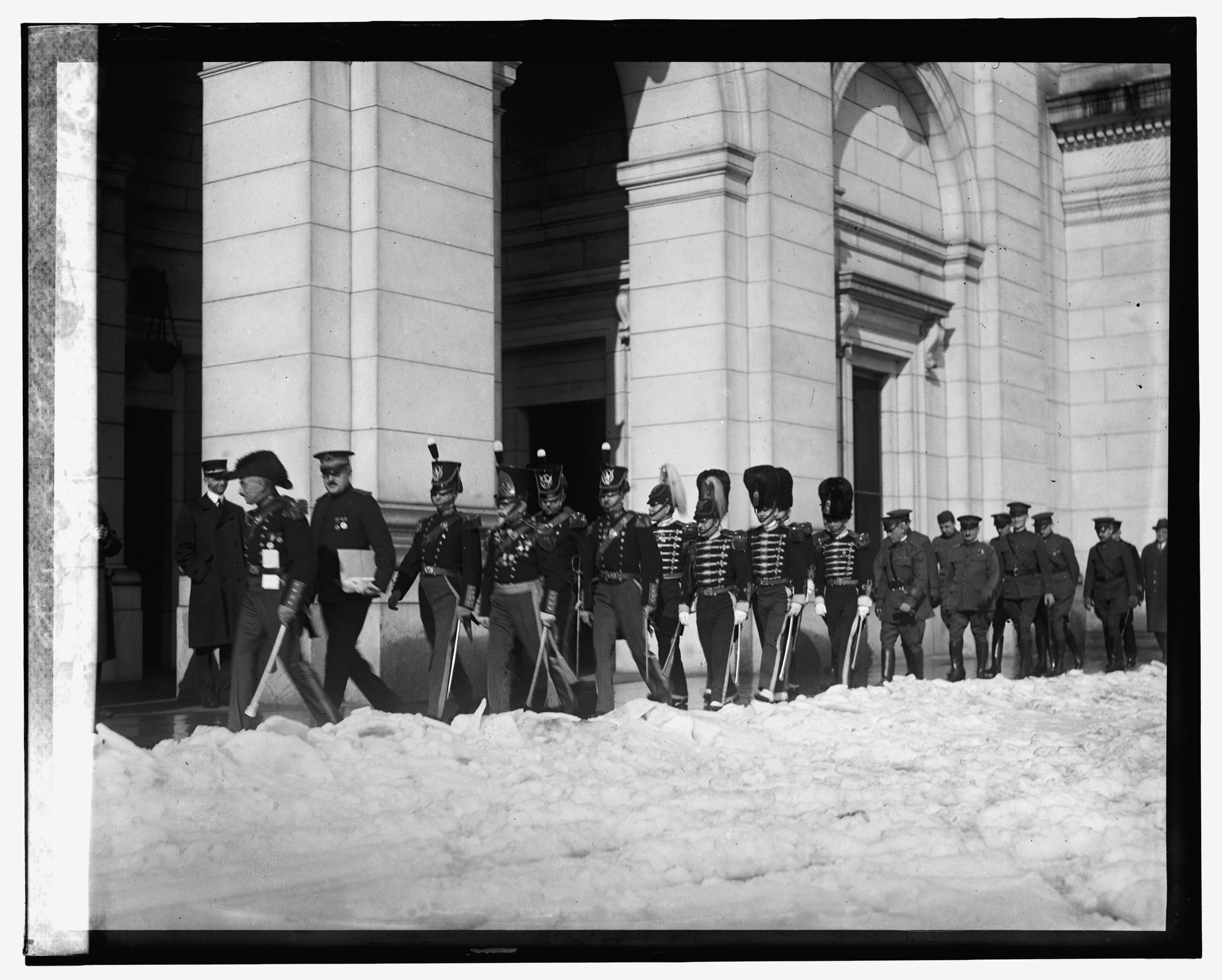 Title: Members of State Fencibles of PA. at Union Station, [1/5/25] Abstract/medium: 1 negative : glass ; 4 x 5 in. or smaller